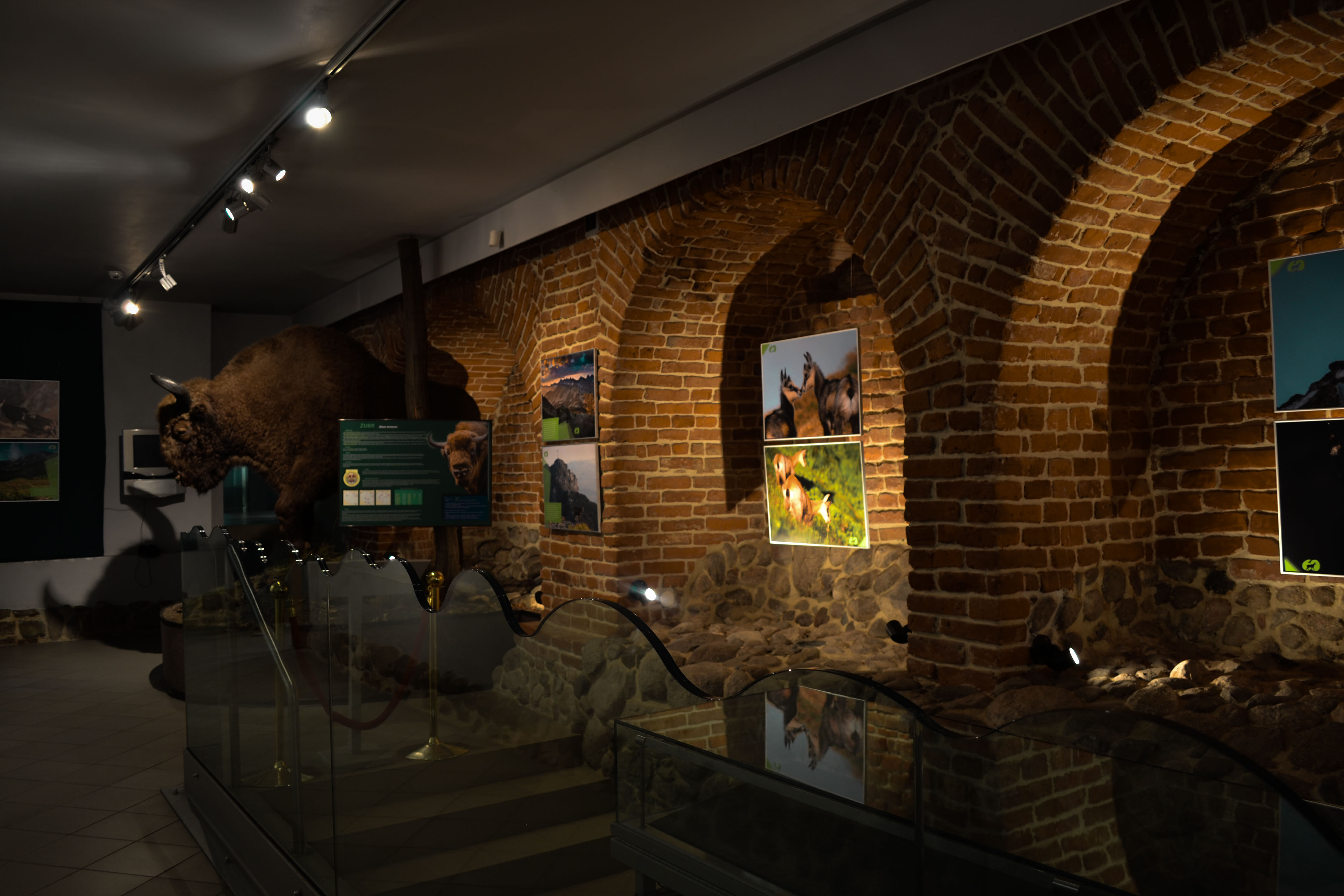 Natural exhibition, Jacek Malczewski Museum in Radom, Poland